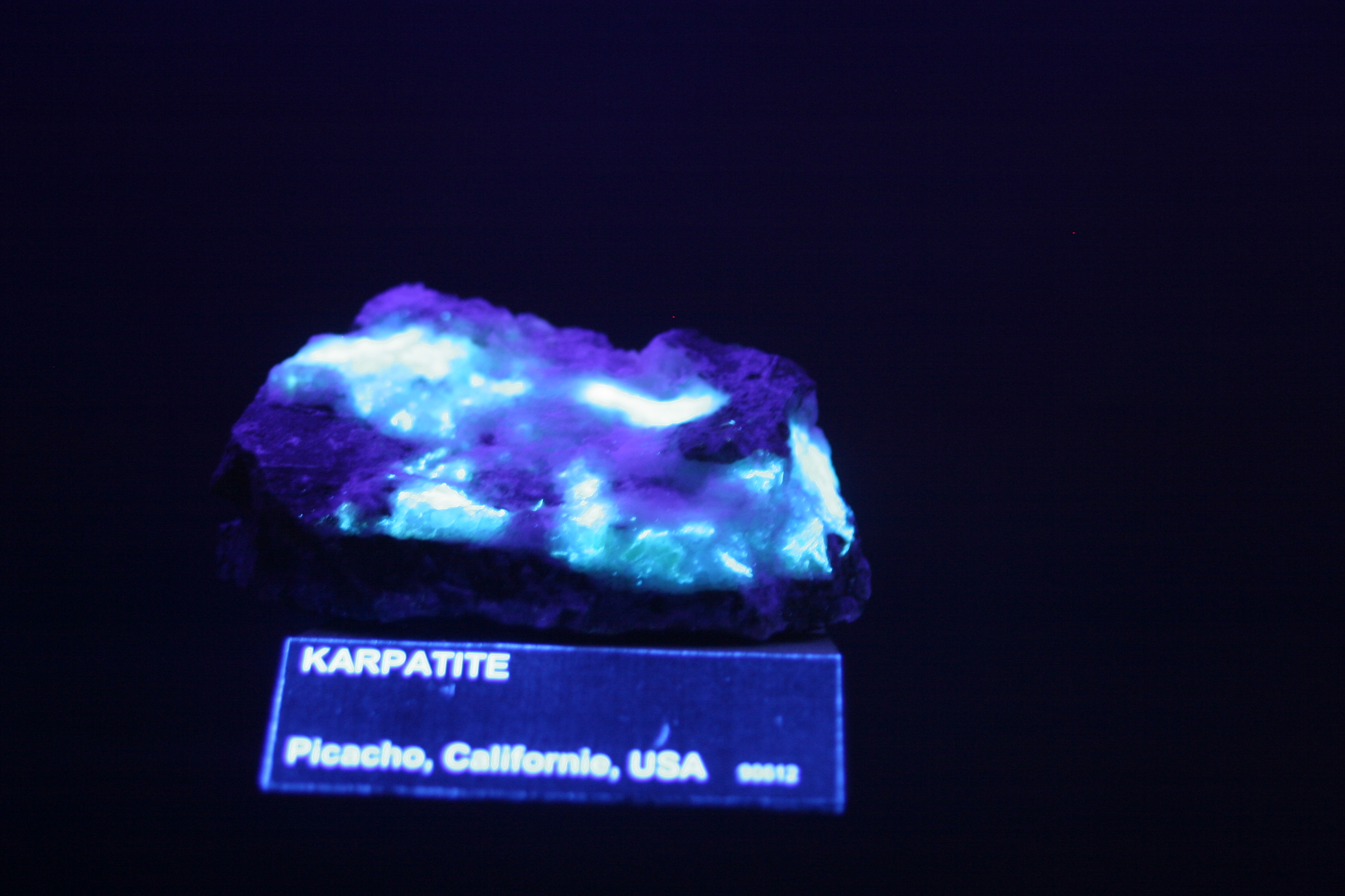 Karpatite, Museum of Lausanne